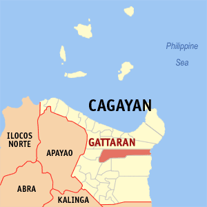 Map of Cagayan showing the location of Gattaran